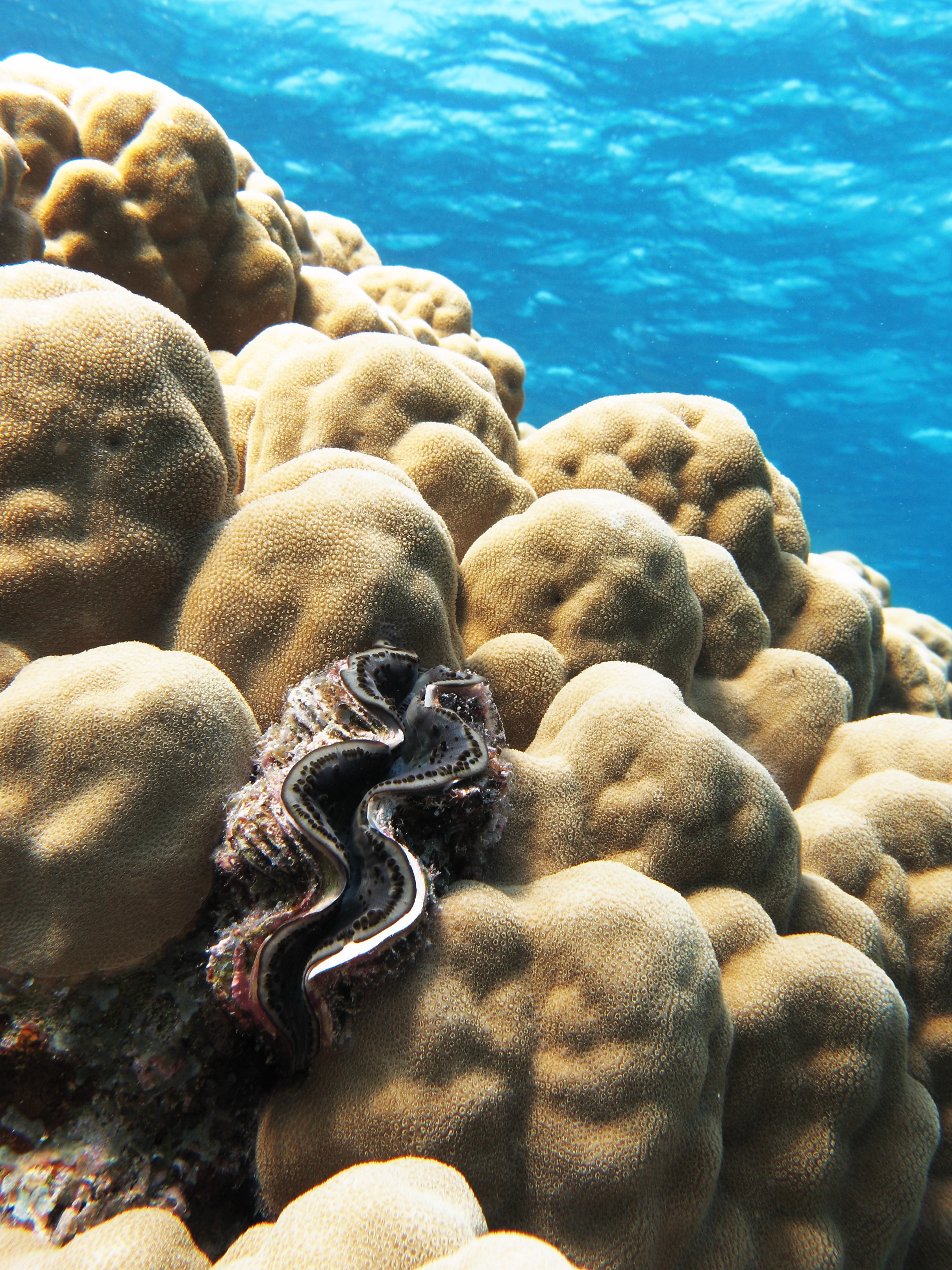 Maxima clam (Tridacna maxima) on a dome coral (Porites nodifera) in the Egyptian Red Sea